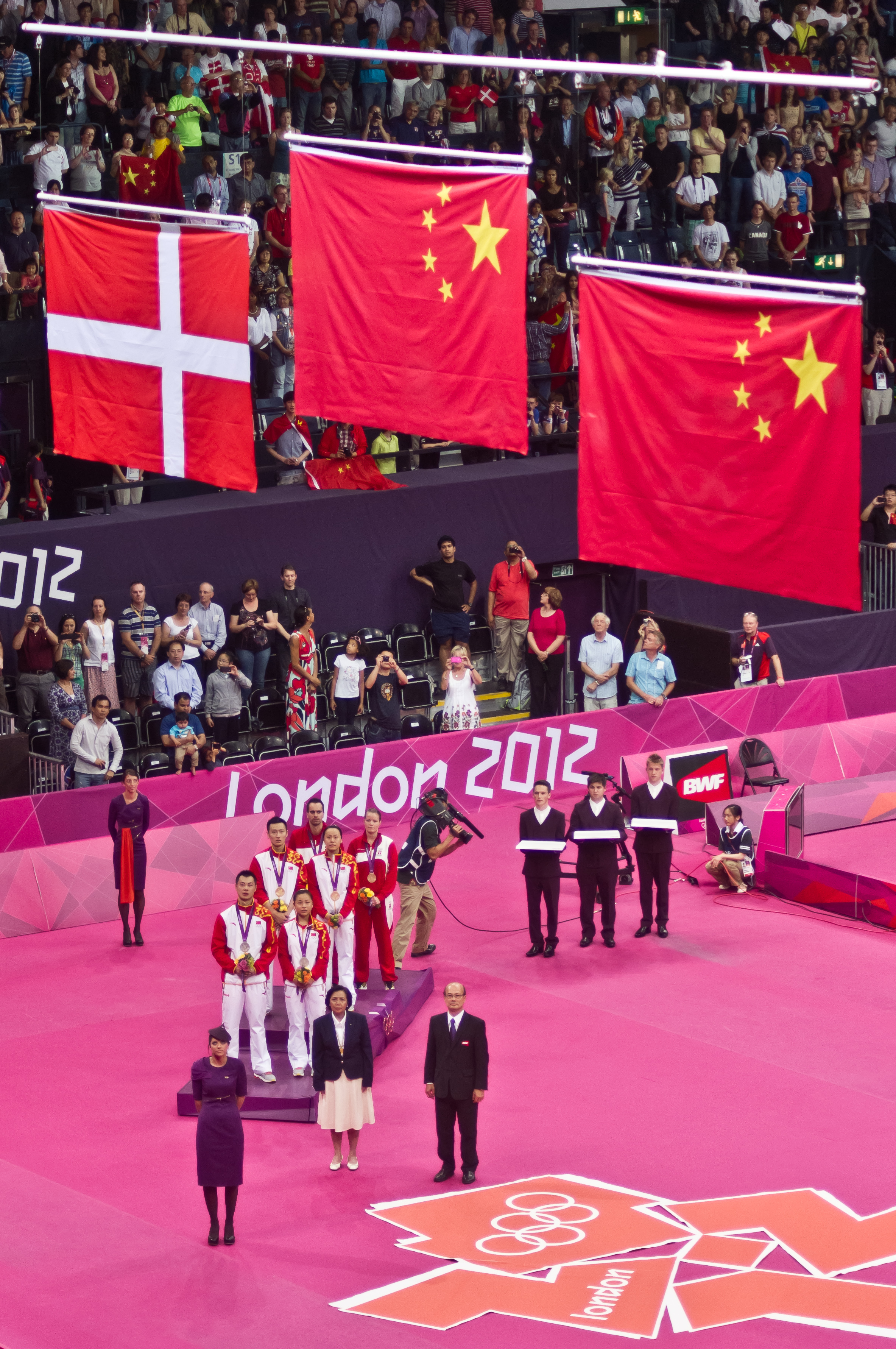 These 6 badminton players were good enough to medal and podium...